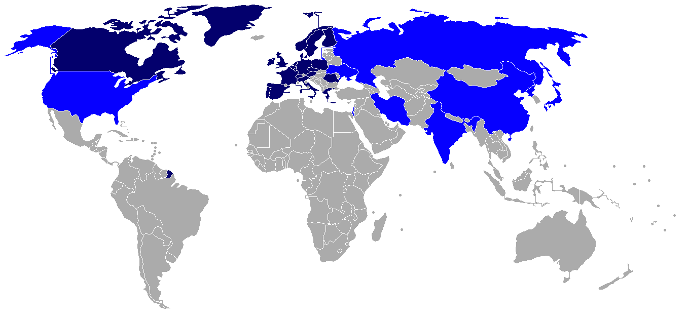 Map of space launch capability countries (ESA shown in darker colour). Edited with Gimp 2.2.17 on Debian GNU/Linux 4.0r1 etch (64bit). This is a derivative work of BlankMap-World-v5.png (original author Astrokey44, contributing authors Dbachmann, Hoshie, Wiz9999, Tene) and was based on the 21:31, 18 April 2007 version of that work.